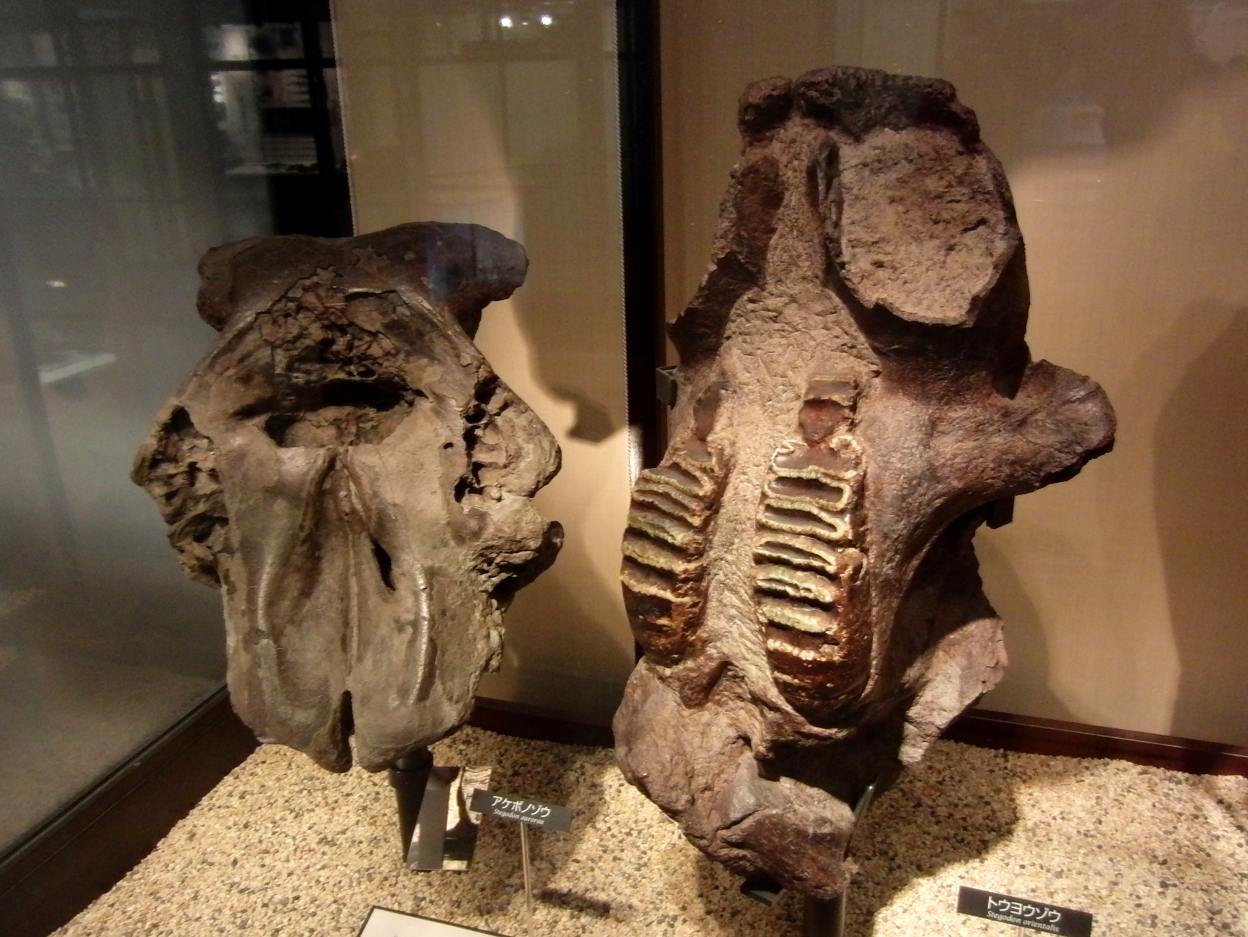 Fossils of Stegodon aurorae (left) and Stegodon orientalis (right). Exhibits in the National Museum of Nature and Science, Tokyo, Japan.